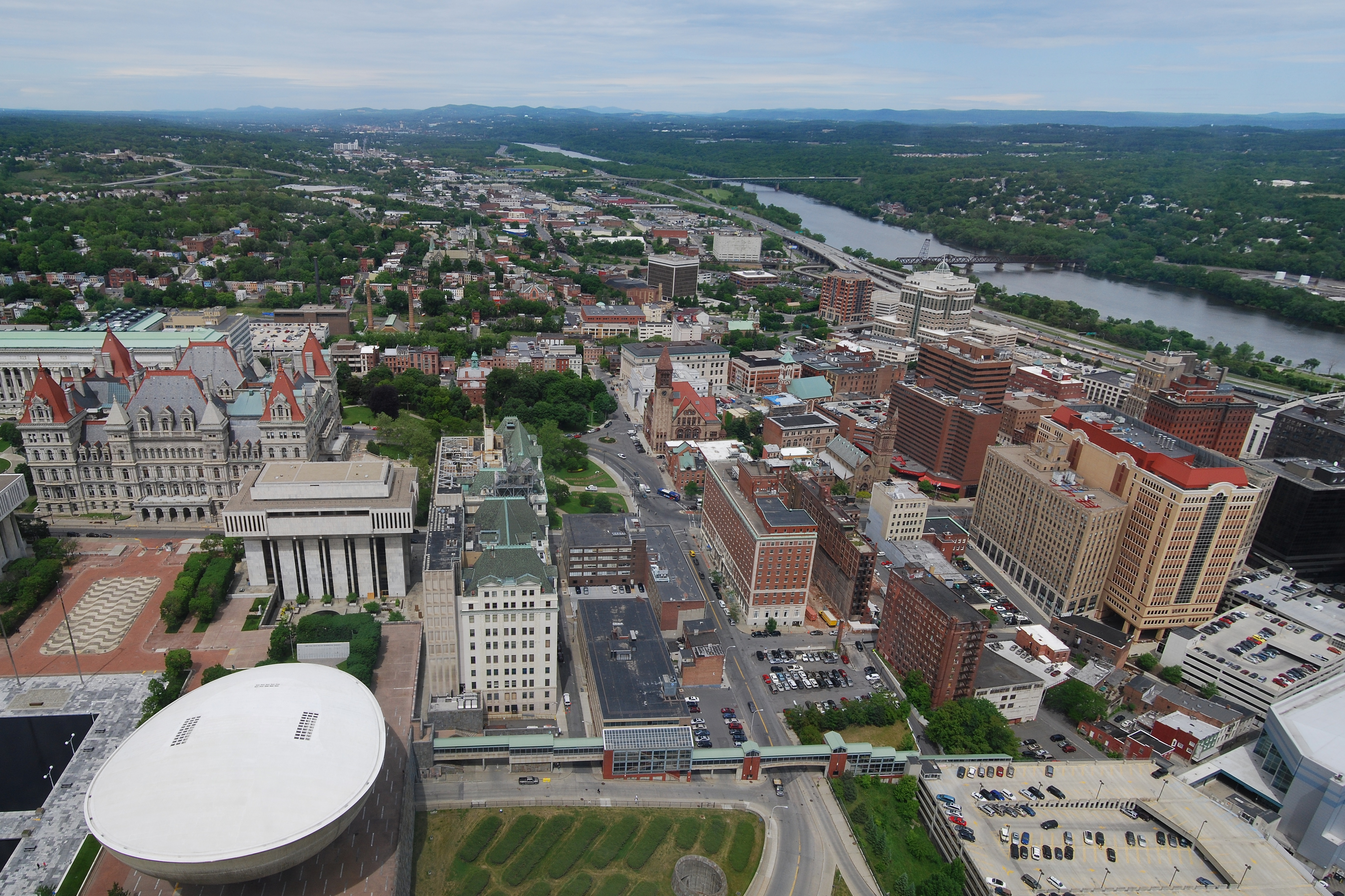 Skyline of Albany, New York, United States from the Corning Tower of the Empire State Plaza